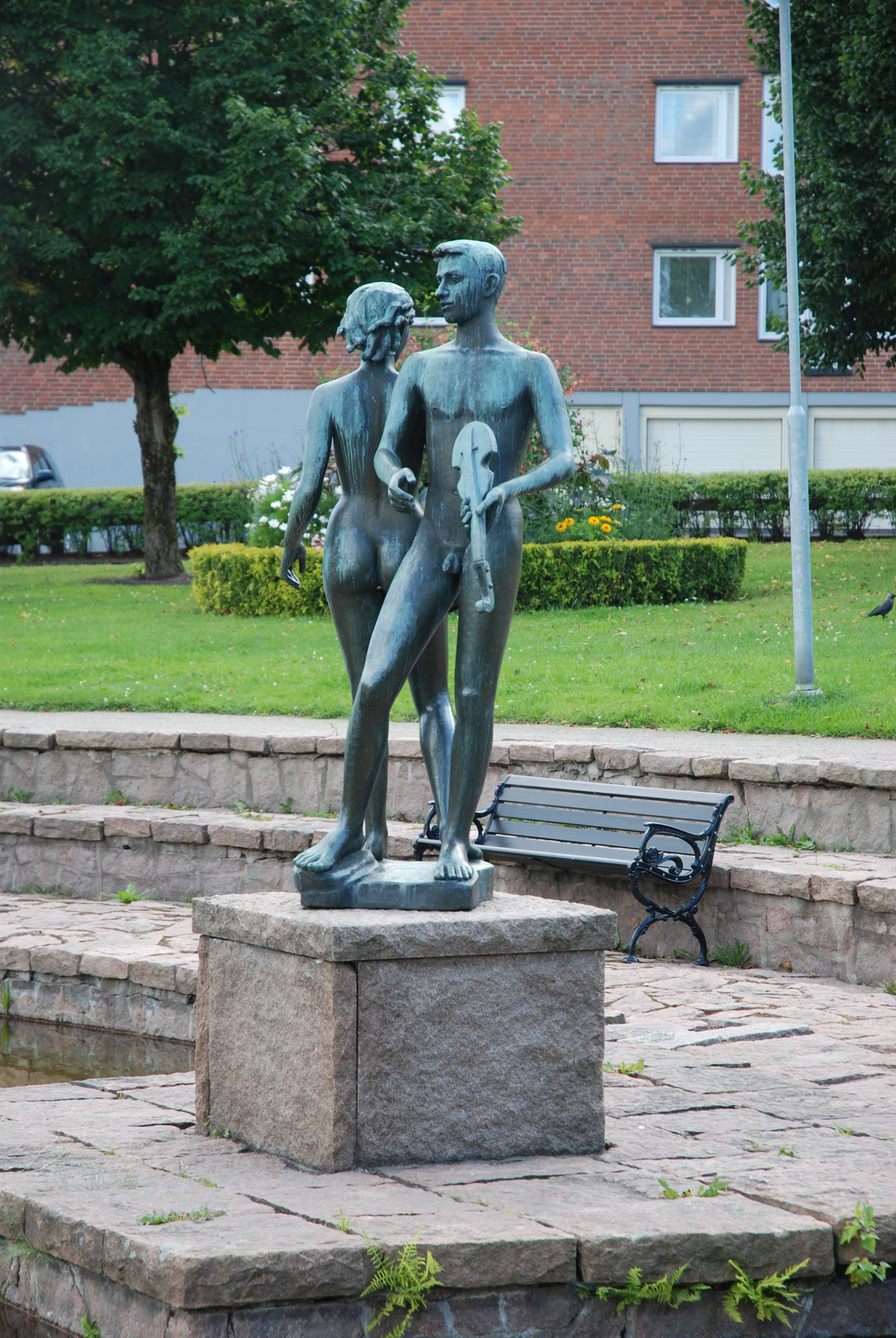 Axel Wallenbergs Folkvisan i Kyrkparken i Gislaved